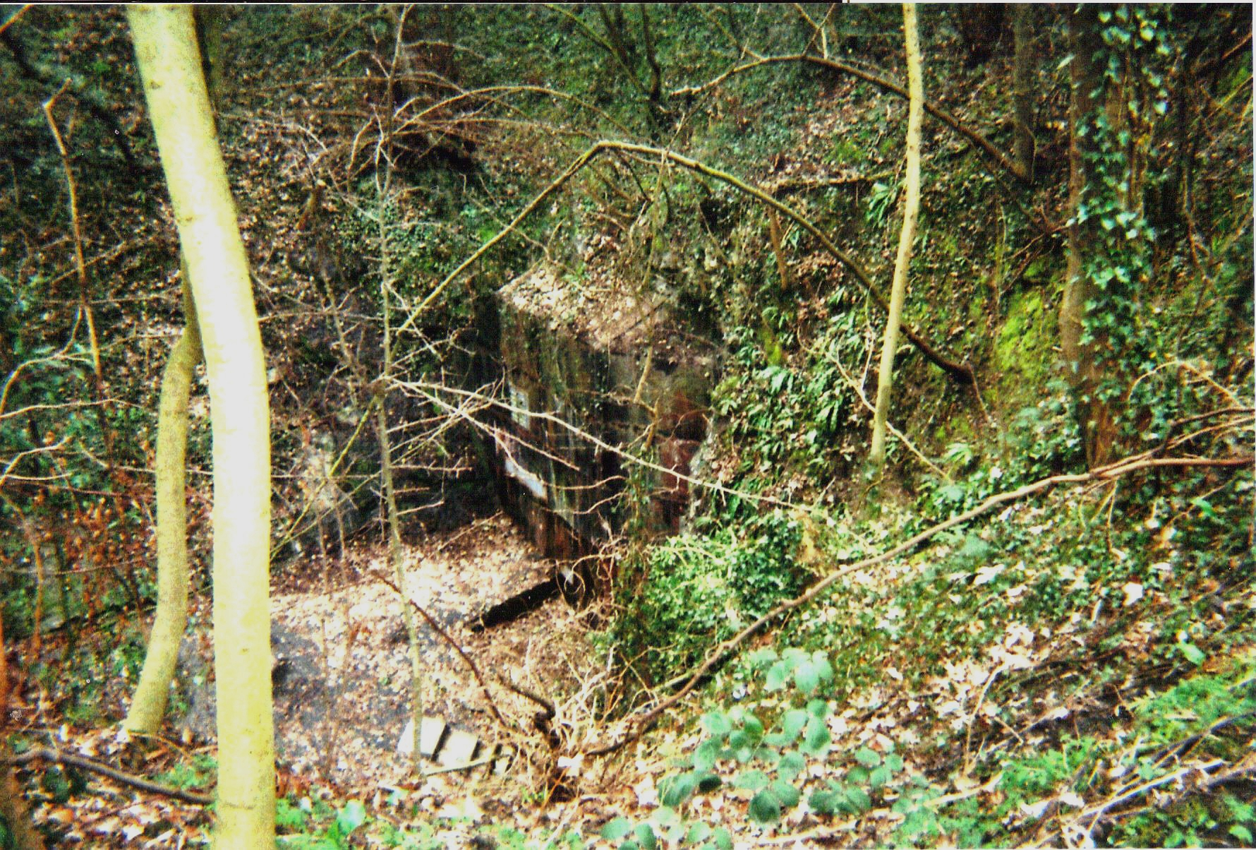 A series of now blocked up industrial tunnels connect a disused quarry in Castel hill, the Wrens nest and the Dudley canal. This tunnel in Castel Hill is one of many leads to the canal tunnels underneath which are run by the Dudley Canal Trust.